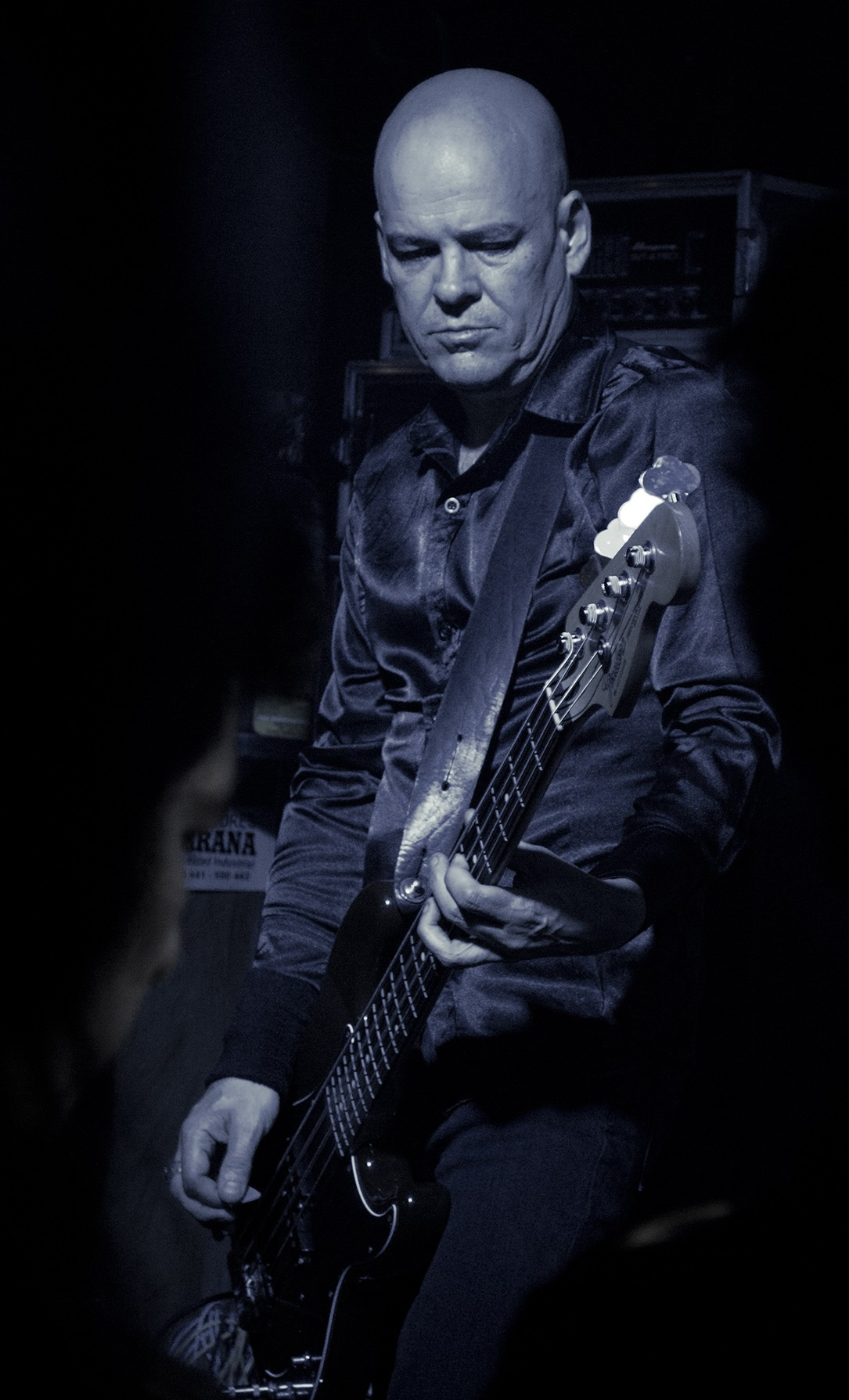 Craig Adams performing with The Mission in 2014